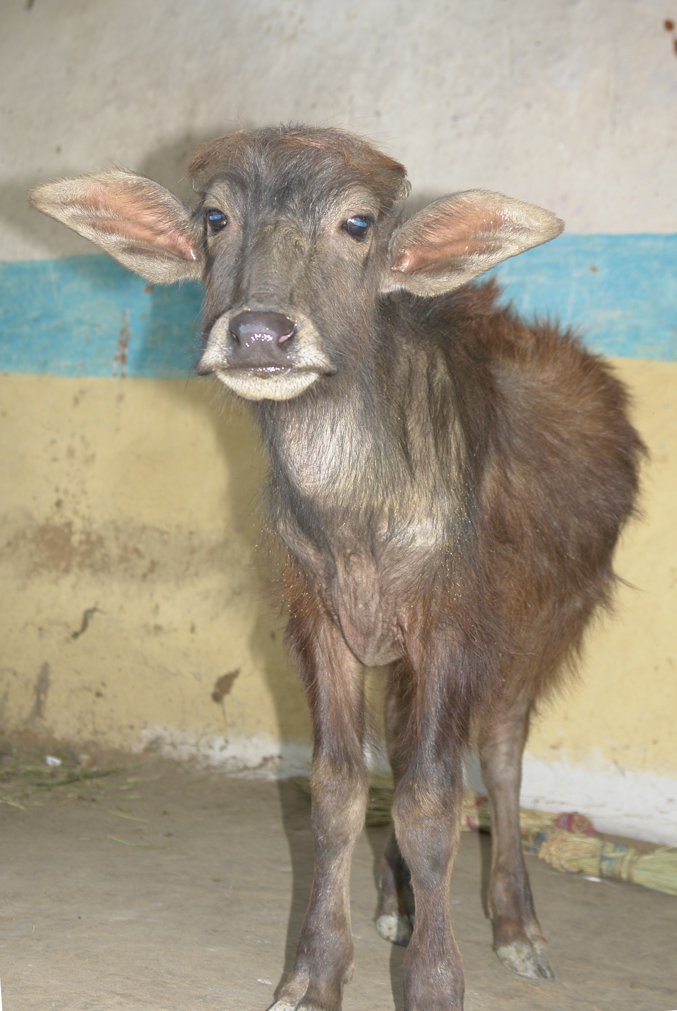 Water buffalo calf (Bubalus bubalis), district Raisen, M.P., India.